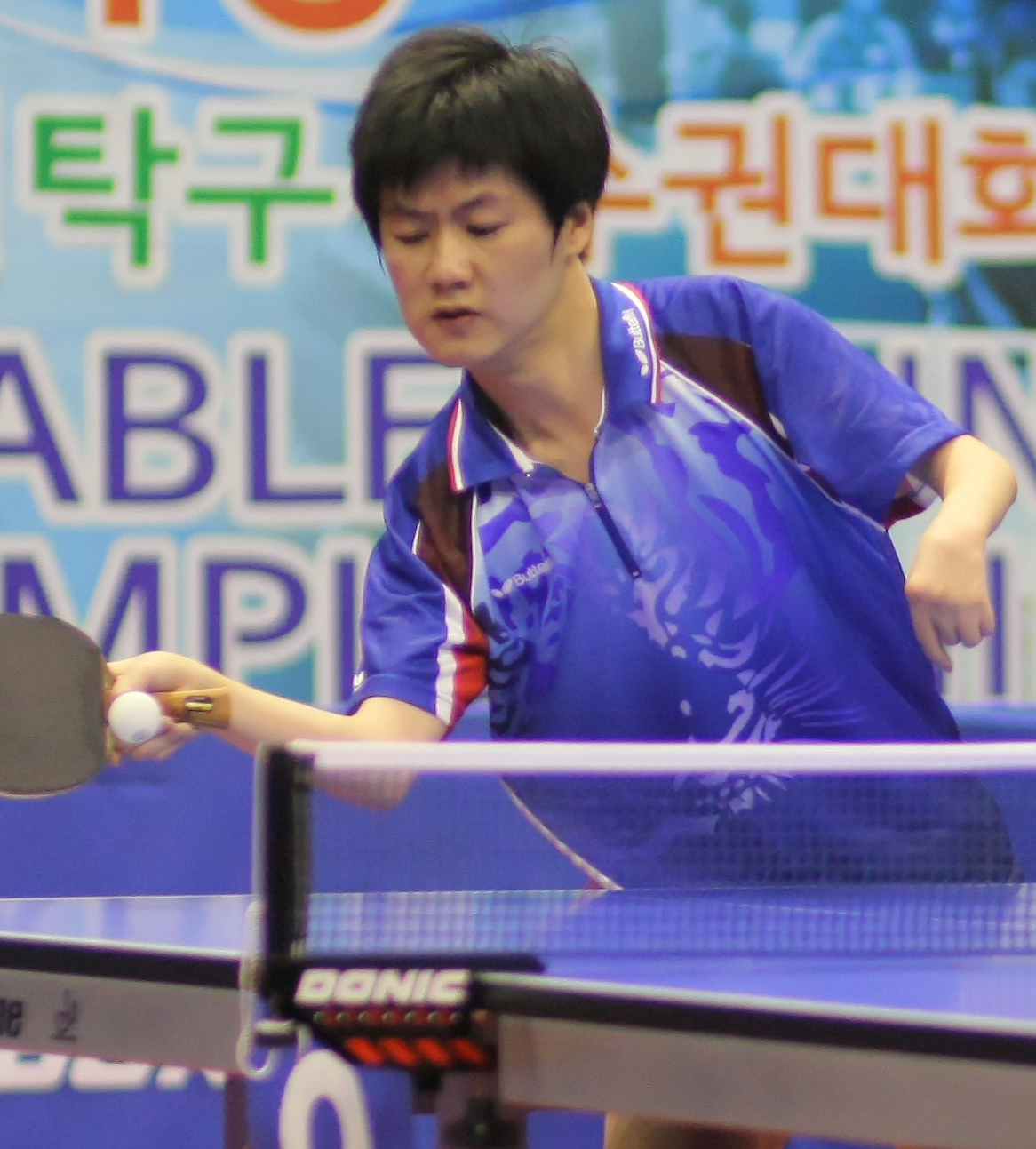 Ye Chaoqun